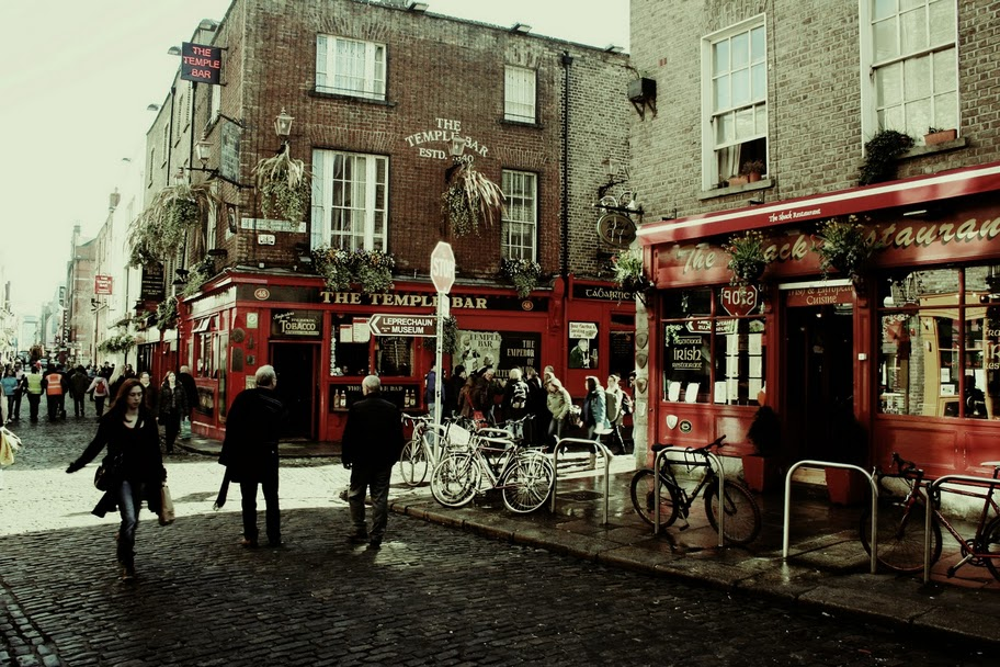 Photograph of Temple Bar, Dublin, Ireland.